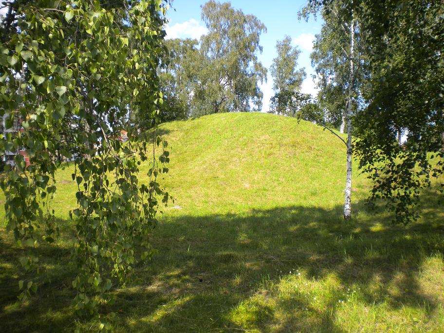 Tumulus called the King’s Mound Kungshögen and King Agni’s Mound Kung Agnes hög near the local train stationPlace: Sollentuna, Sweden